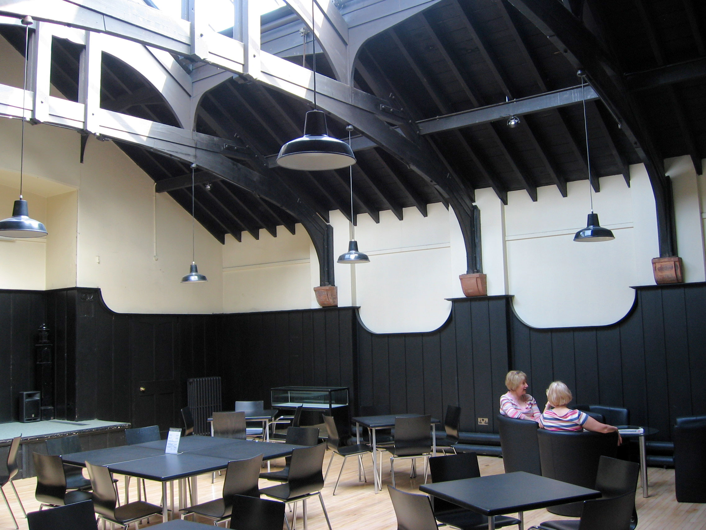 Queen's Cross Church, Glasgow, designed by Charles Rennie Mackintosh